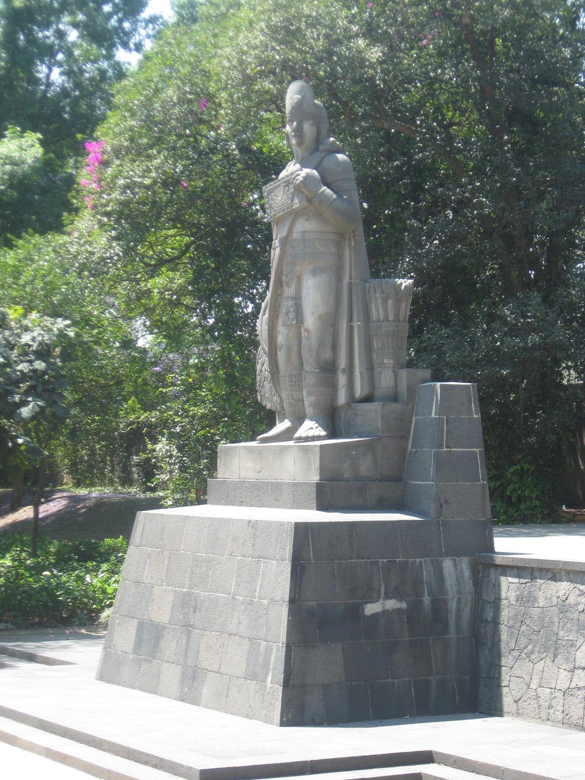 Statue of Nezahualcoyotl in Chapultepec Park in Mexico City